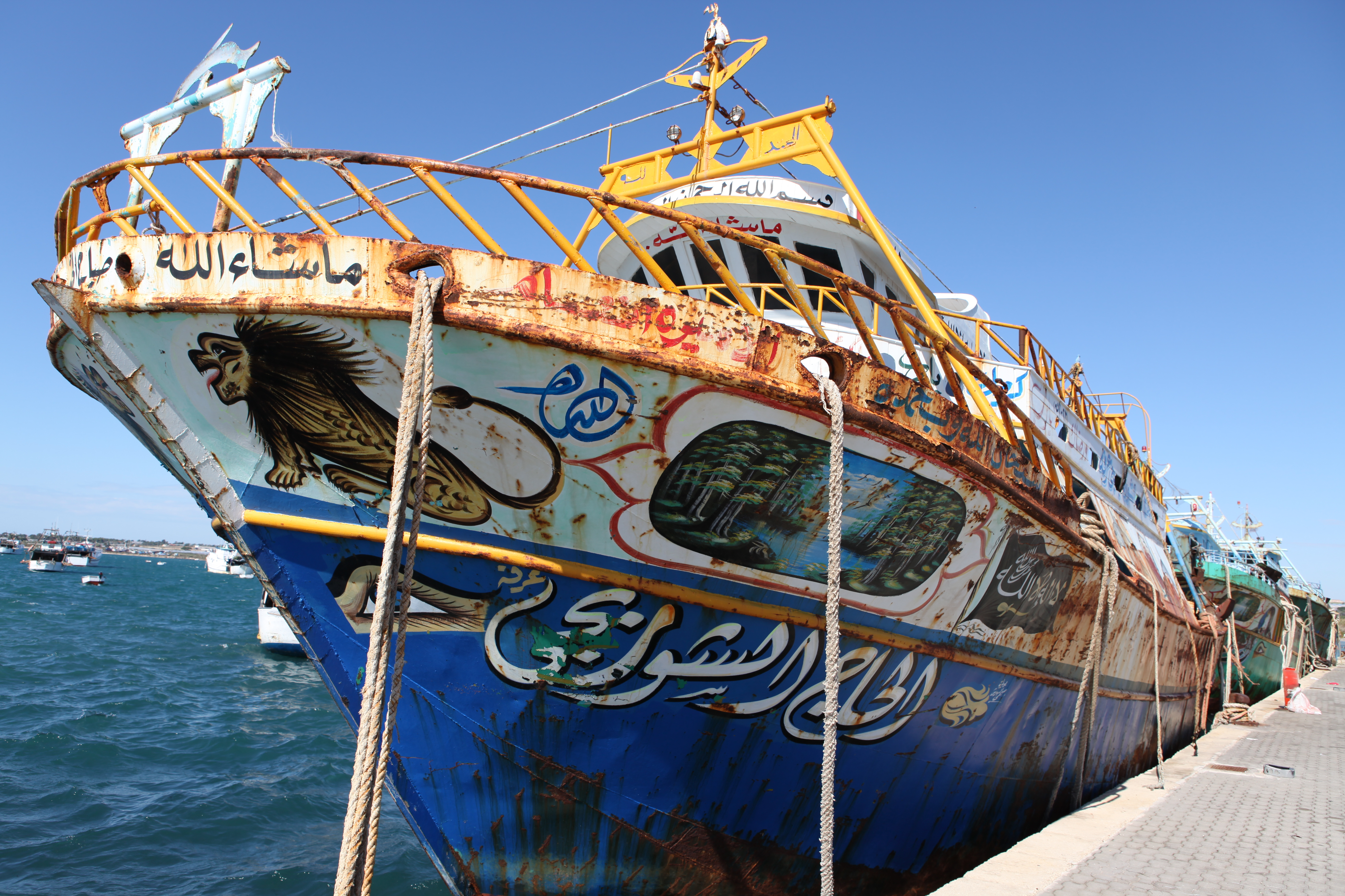 abandoned fishing boats moored in the harbour of Portopalo di Capo Passero on the southernmost tip of Sicily. According to loacal fishermen these boats have been used to transport undocumented migrants from North Africa to the Sicilian shore.